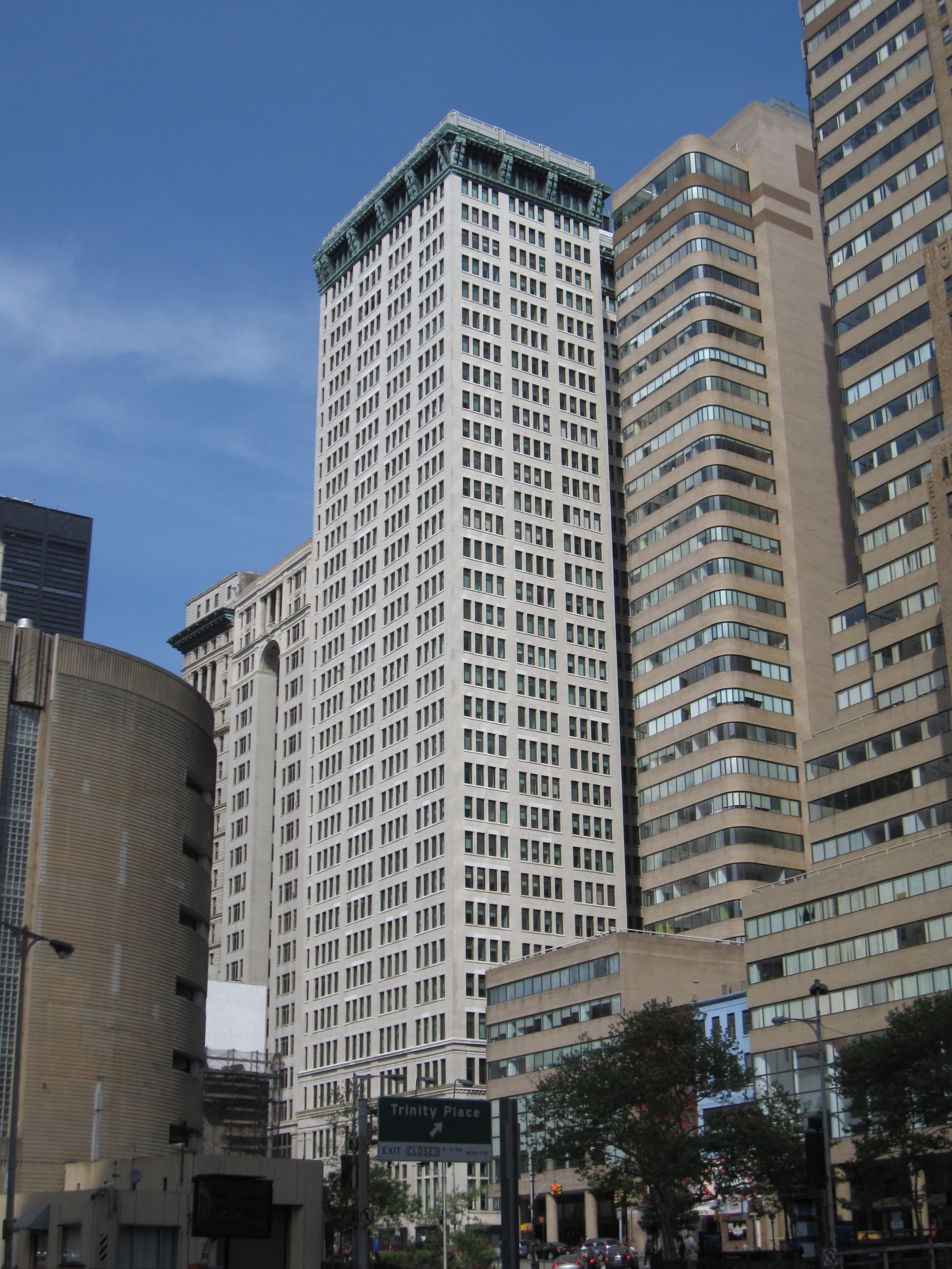 Adams Express Buildings at 57-61 Broadway, and Exchange Alley and 33-41 Trinity Place in New York.